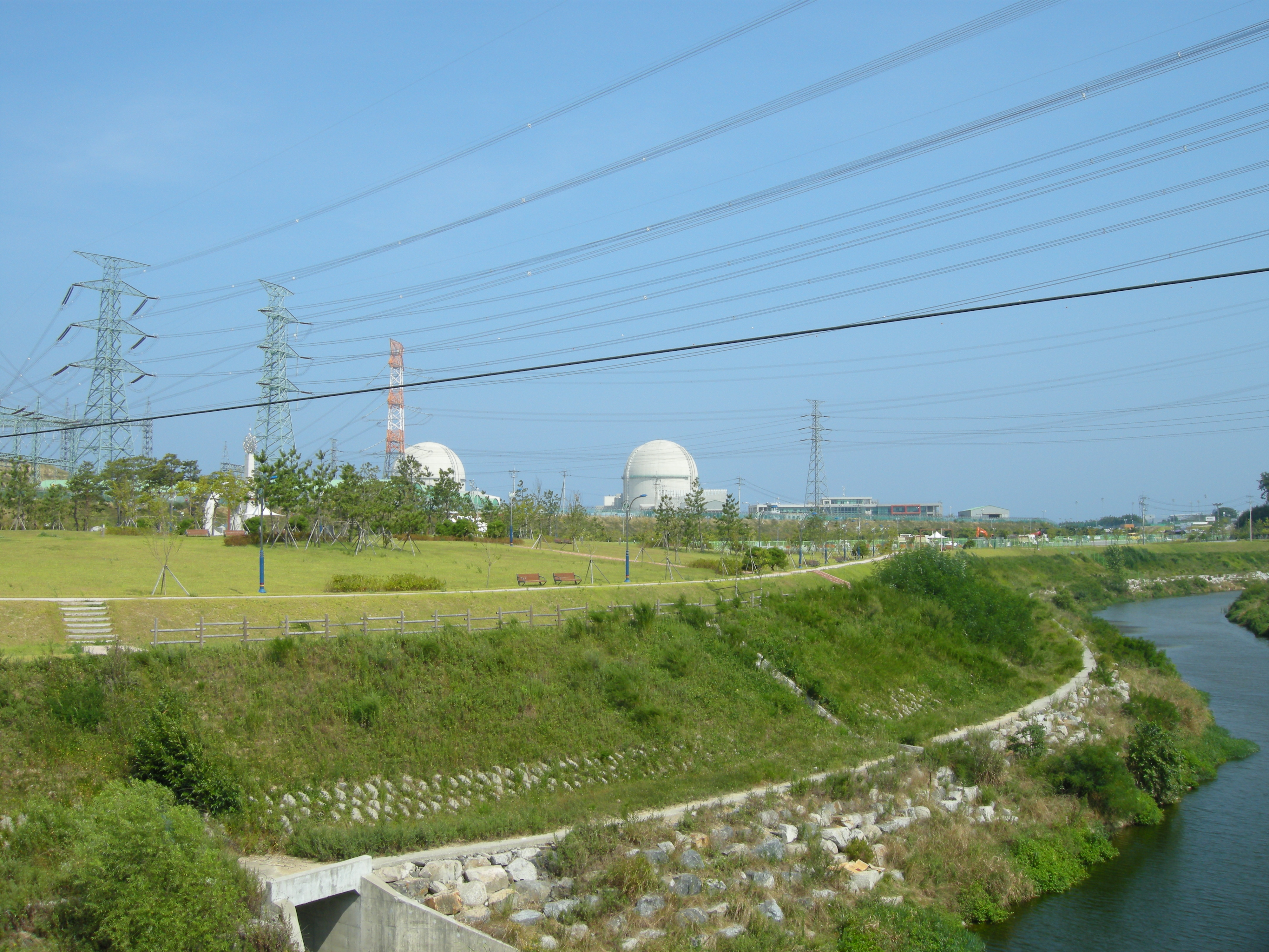 Shin Kori Nuclear Power Plant, Reactors Shin Kori 1, Shin Kori 2 from right to left.